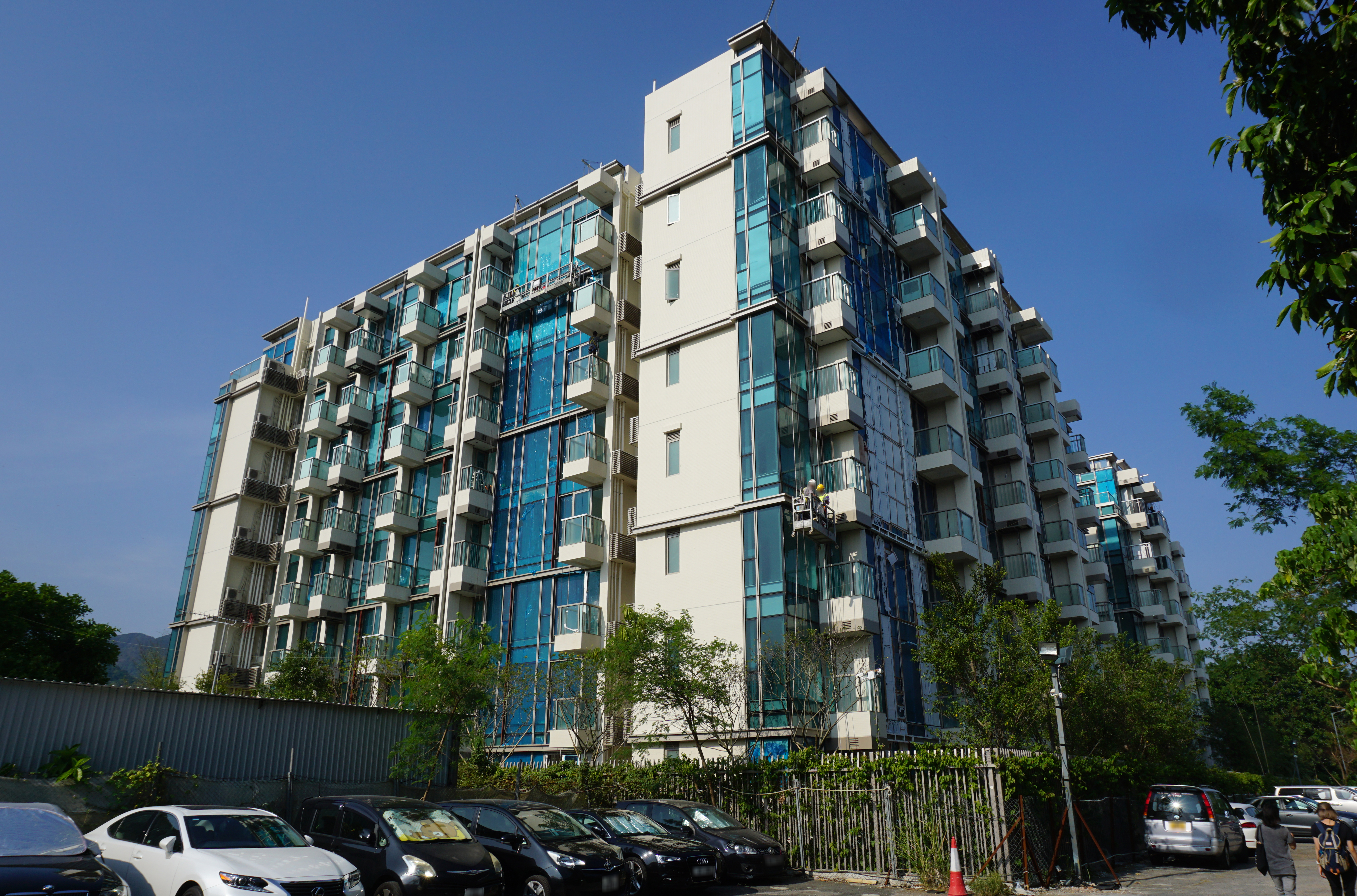 The Mediterranean in Sai Kung, Hong Kong.